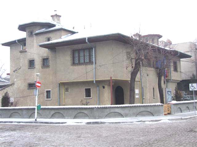 Zambaccian Museum, BucharestRomână: Muzeul Zambaccian, Bukarest